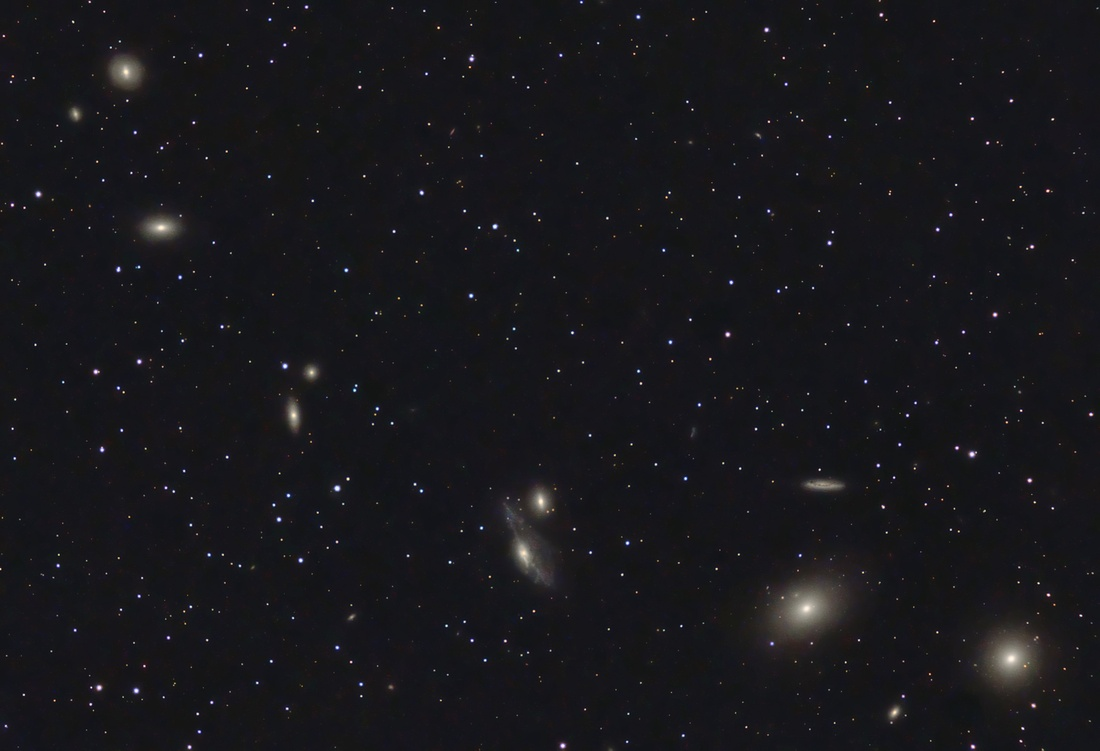 Markarian's Chain in Virgo